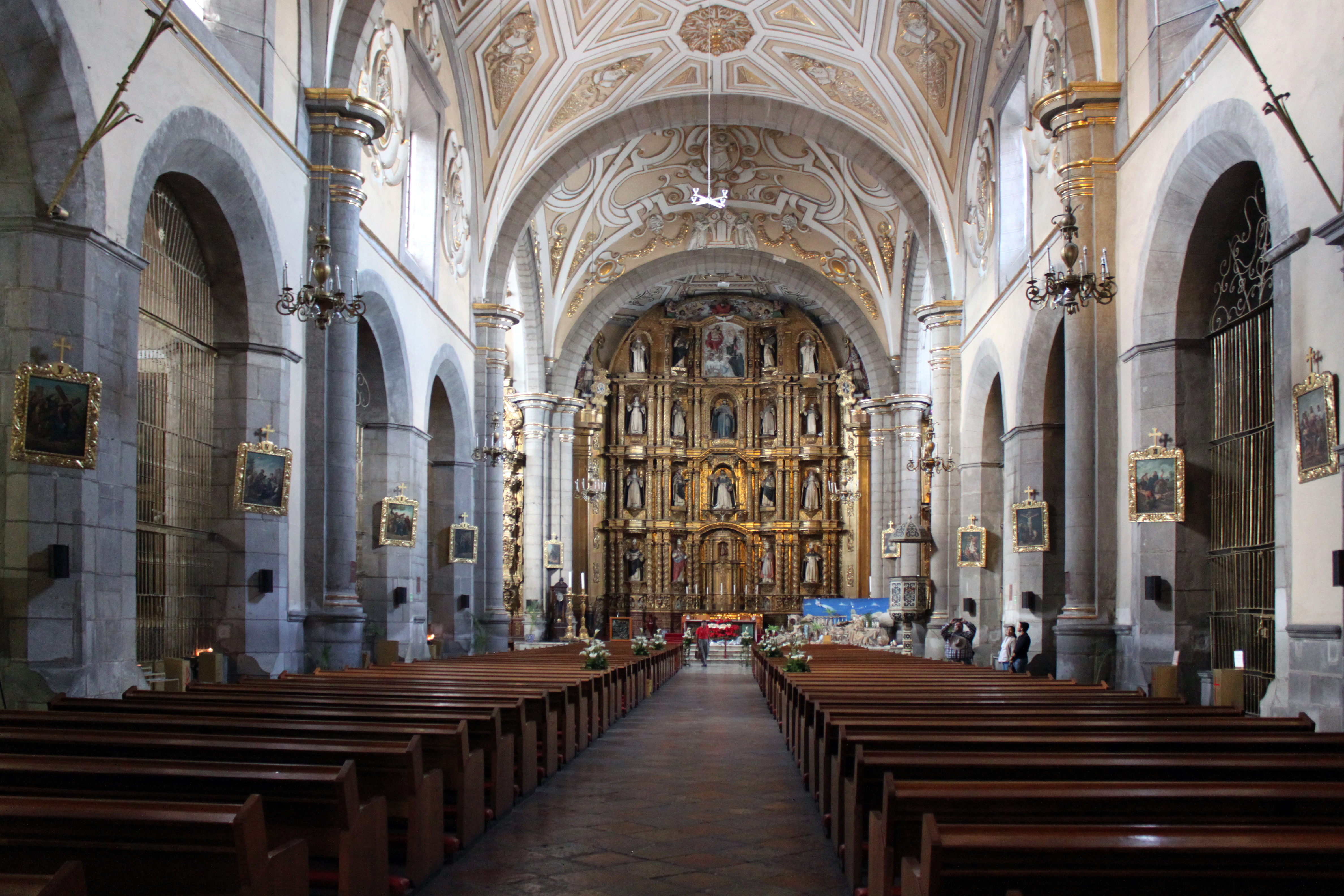 Puebla (Puebla, Mexico): Rosary Chapel